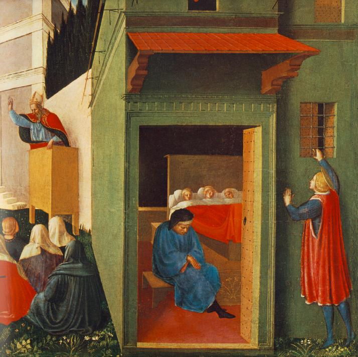 ANGELICO, Fra The Story of St Nicholas: Giving Dowry to Three Poor Girls Tempera on wood, Pinacoteca, Vatican